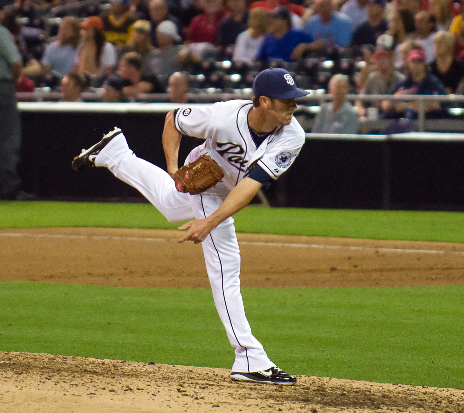 Tom Layne major league baseball pitcher for the San Diego Padres Sept. 11 2012 at Petco Park in San Diego California